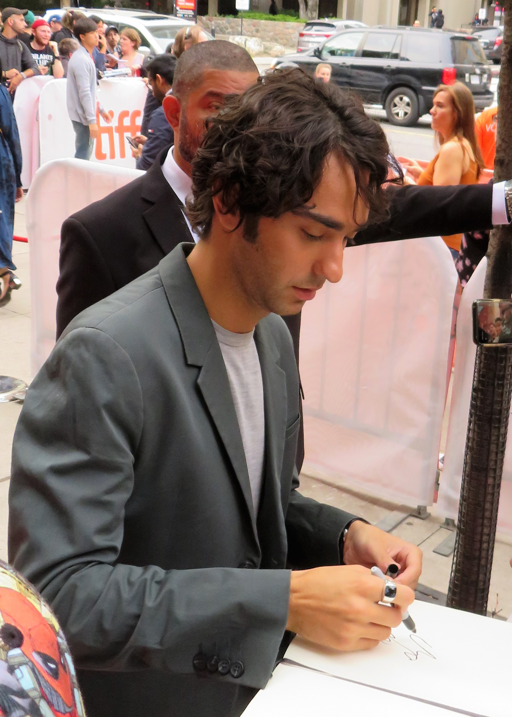 Alex Wolff at the premiere of Human Capital, 2019 Toronto Film Festival